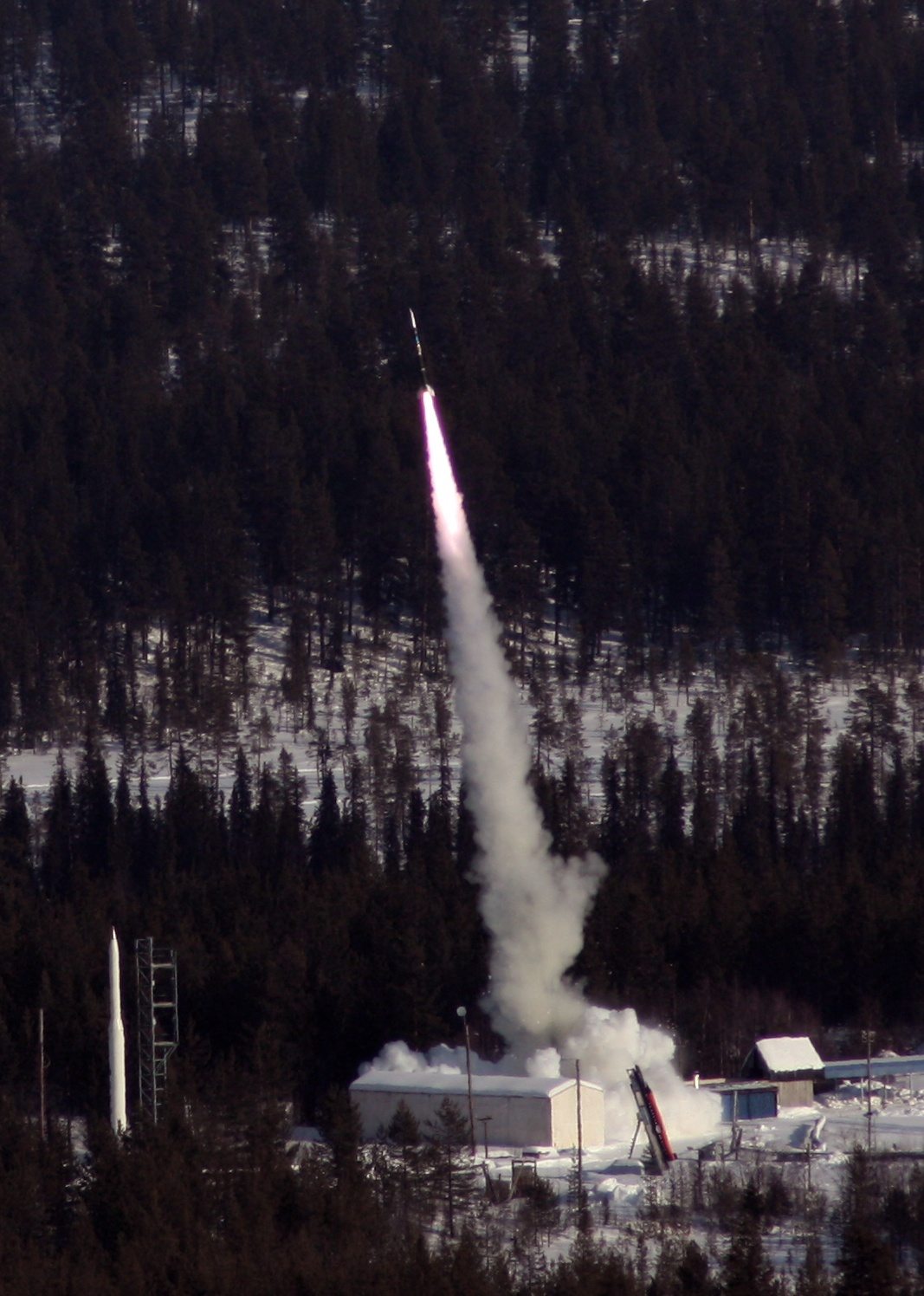 Launch of the REXUS6 rocket, an improved Orion from Esrange, Kiruna.